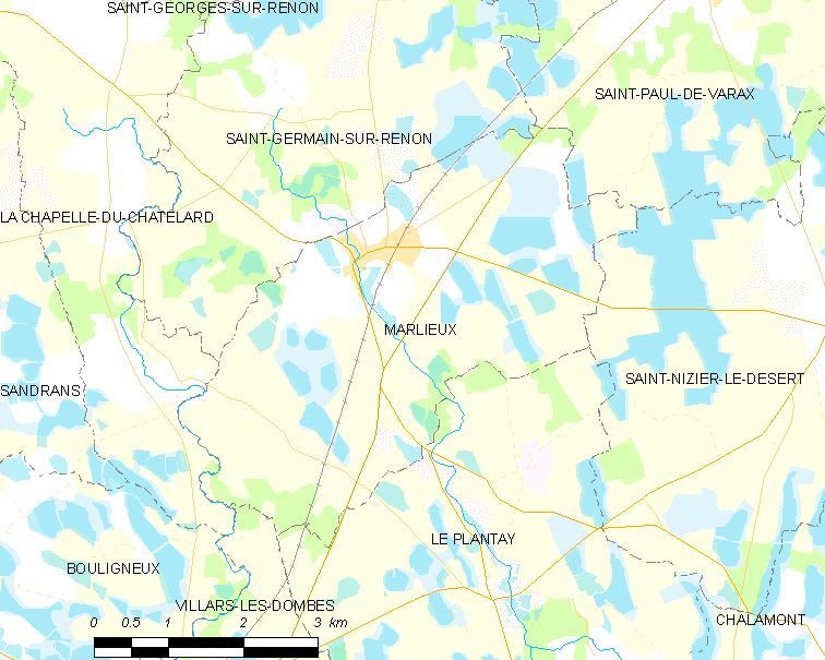 Map of French commune: Marlieux Map commune FR insee code 01235.png